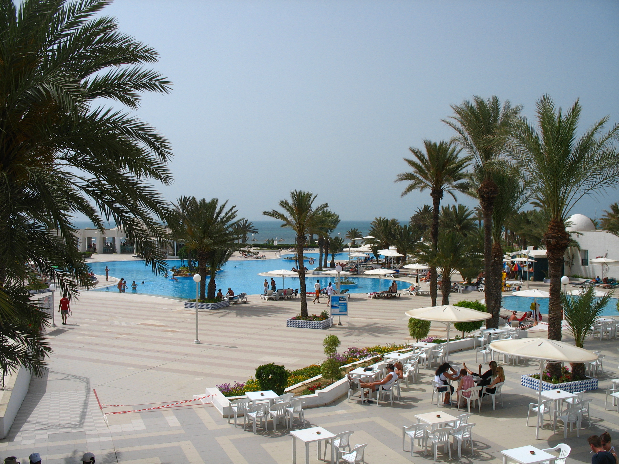 Djerba (Tunisia).